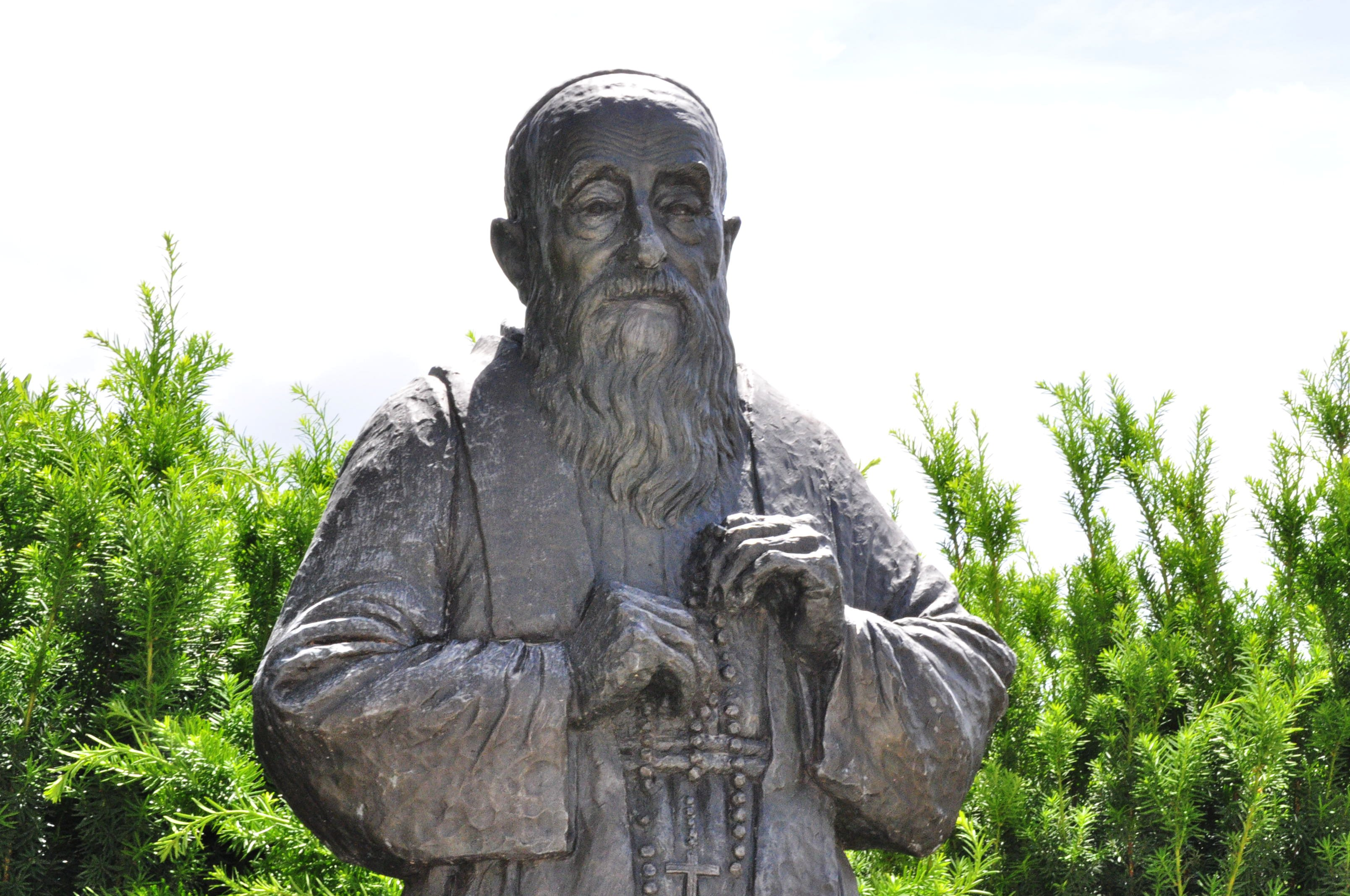 St. Jacob church in Međugorje, Bosnia.